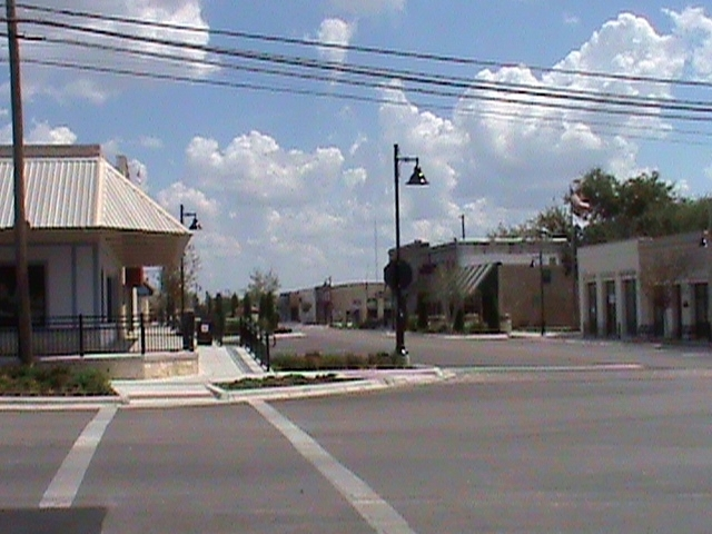 Killeen Downtown Historic District, Roughly bounded by Avenue A, Santa Fe Plaza, North 4th